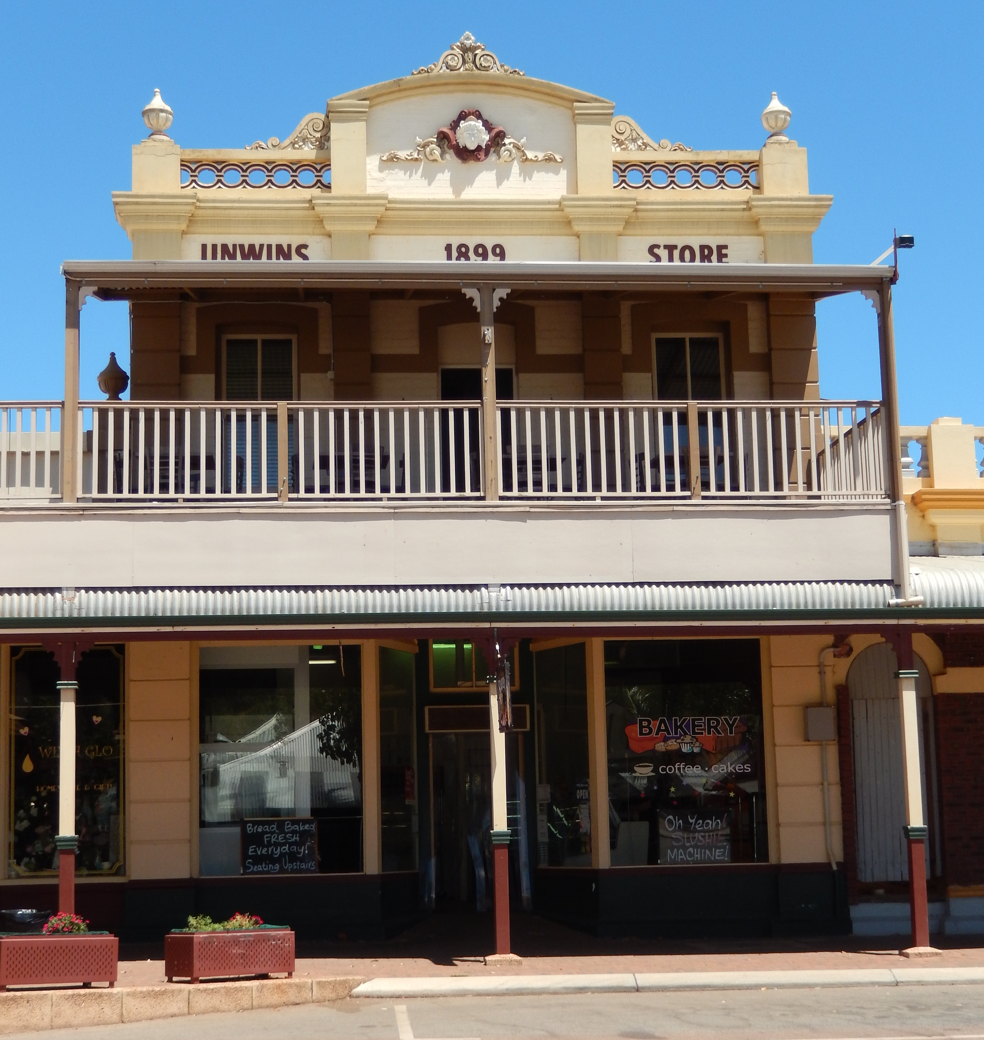 Cropped and rotated version of File:Urwin's Store.JPG